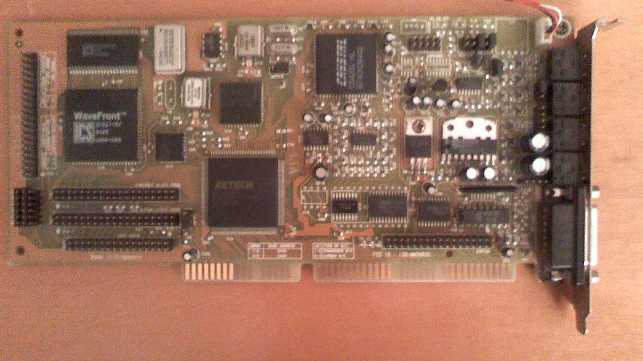 An old Sound Blaster Pro sound card